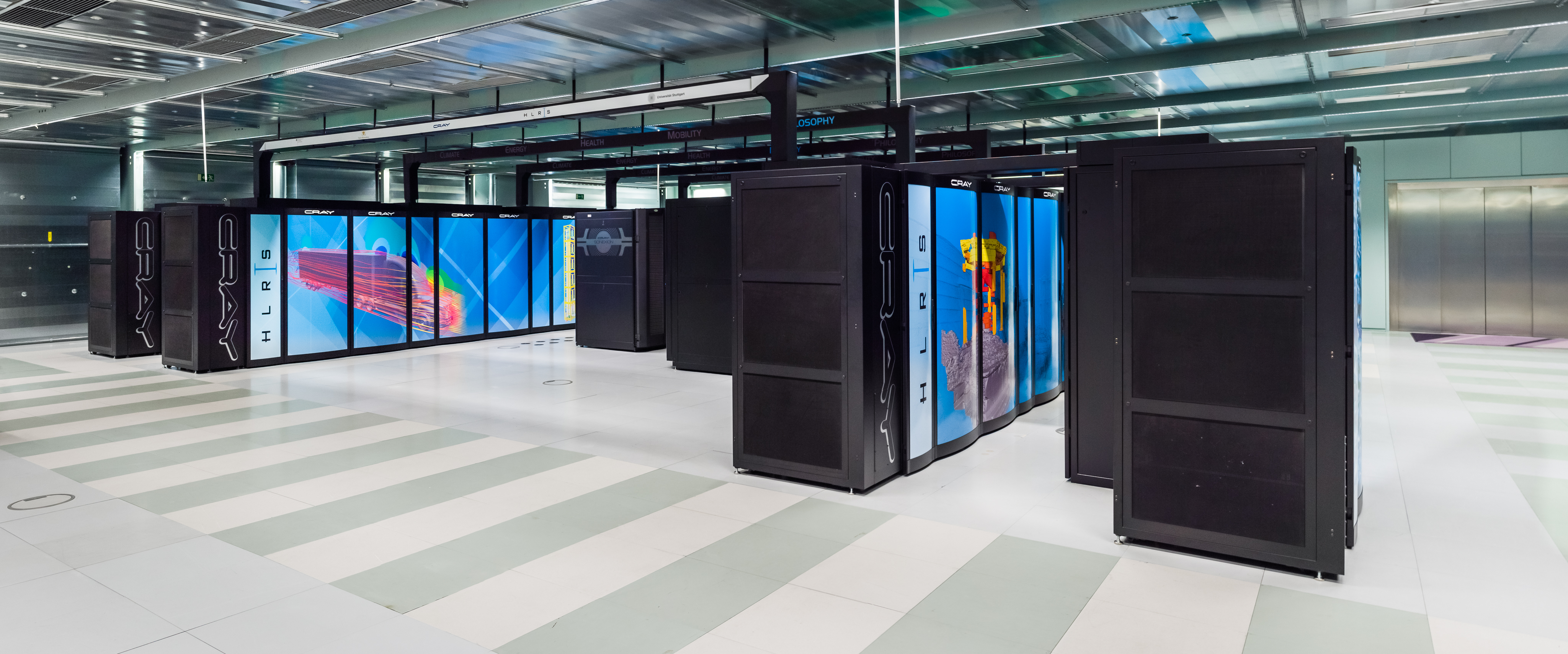 Cray XC40 (Hazel Hen) full view, High Performance Computing Center Stuttgart (HLRS) of the University of Stuttgart.